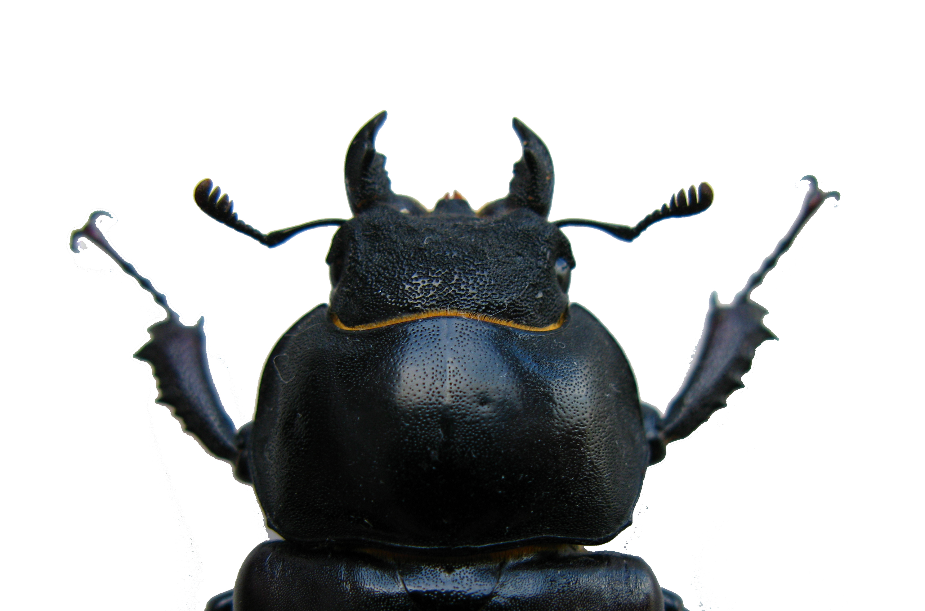 Lucanus cervus female head